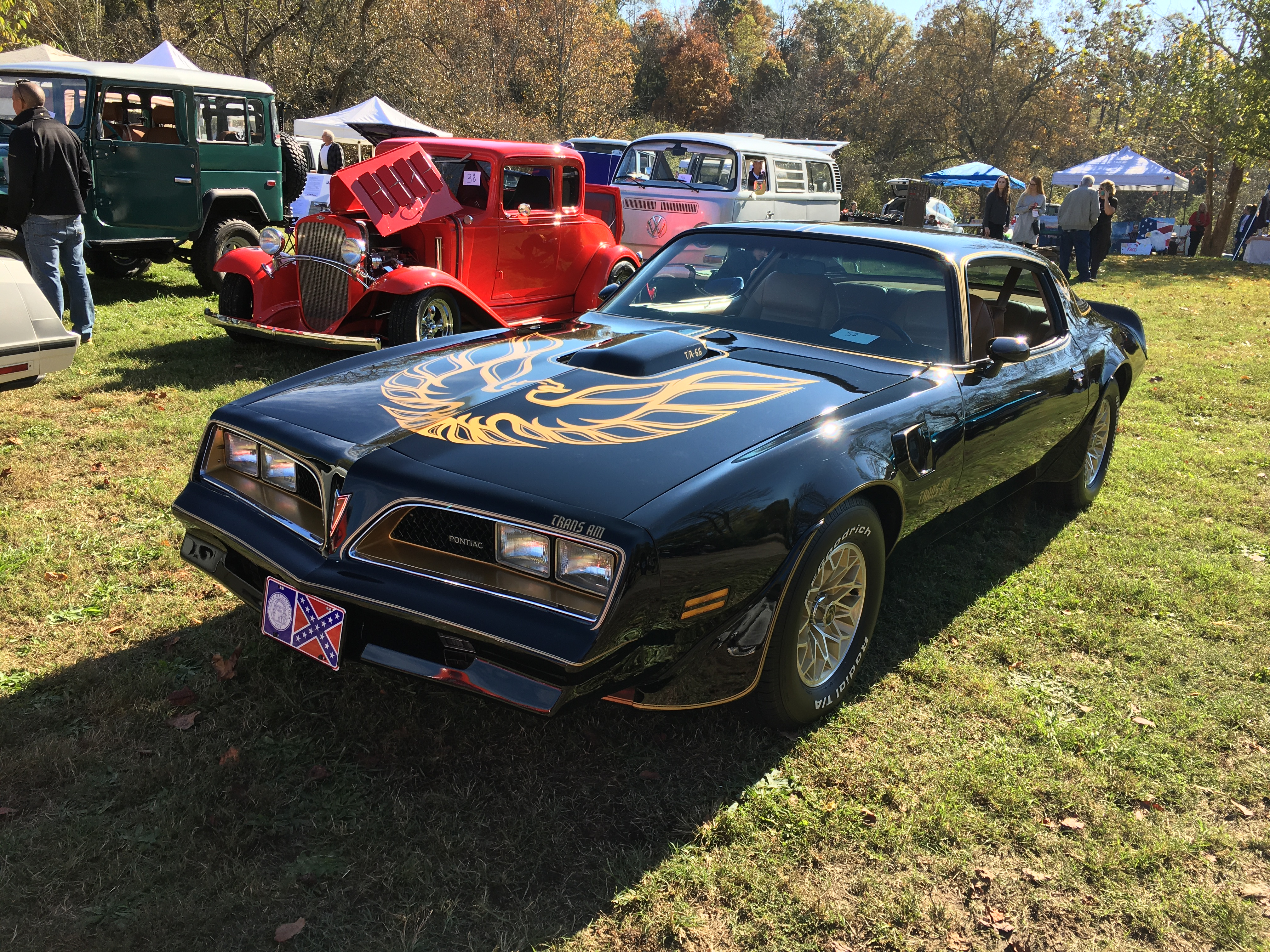 the front view of a Pontiac Firebird